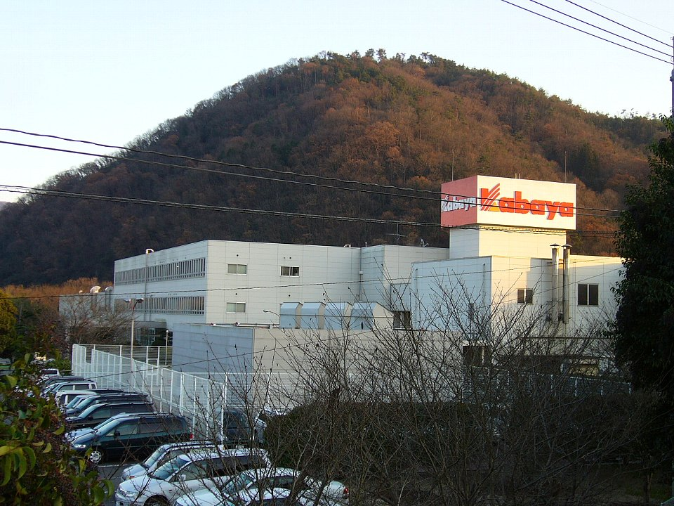 The Head office of Kabaya Foods Corporation. Original description from ja.wikipedia 12:10, 20 December 2006. Bakkai